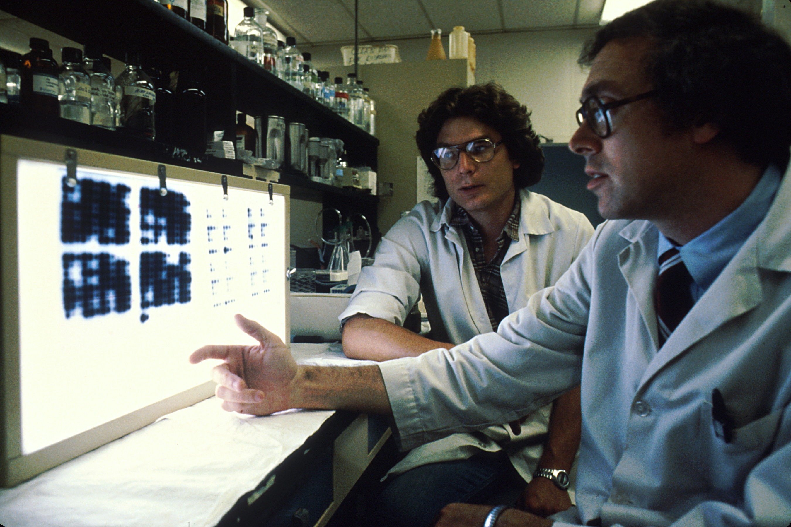 Public domain image from Pictured are two researchers looking at slides of cultures of cells that make monoclonal antibodies. These are grown in a lab and the researchers are analyzing the products to select the most promising of them. In addition to the implicit public domain status provided as a work of the United States Government, the National Cancer Institute has also explicitly licensed this photo into the public domain